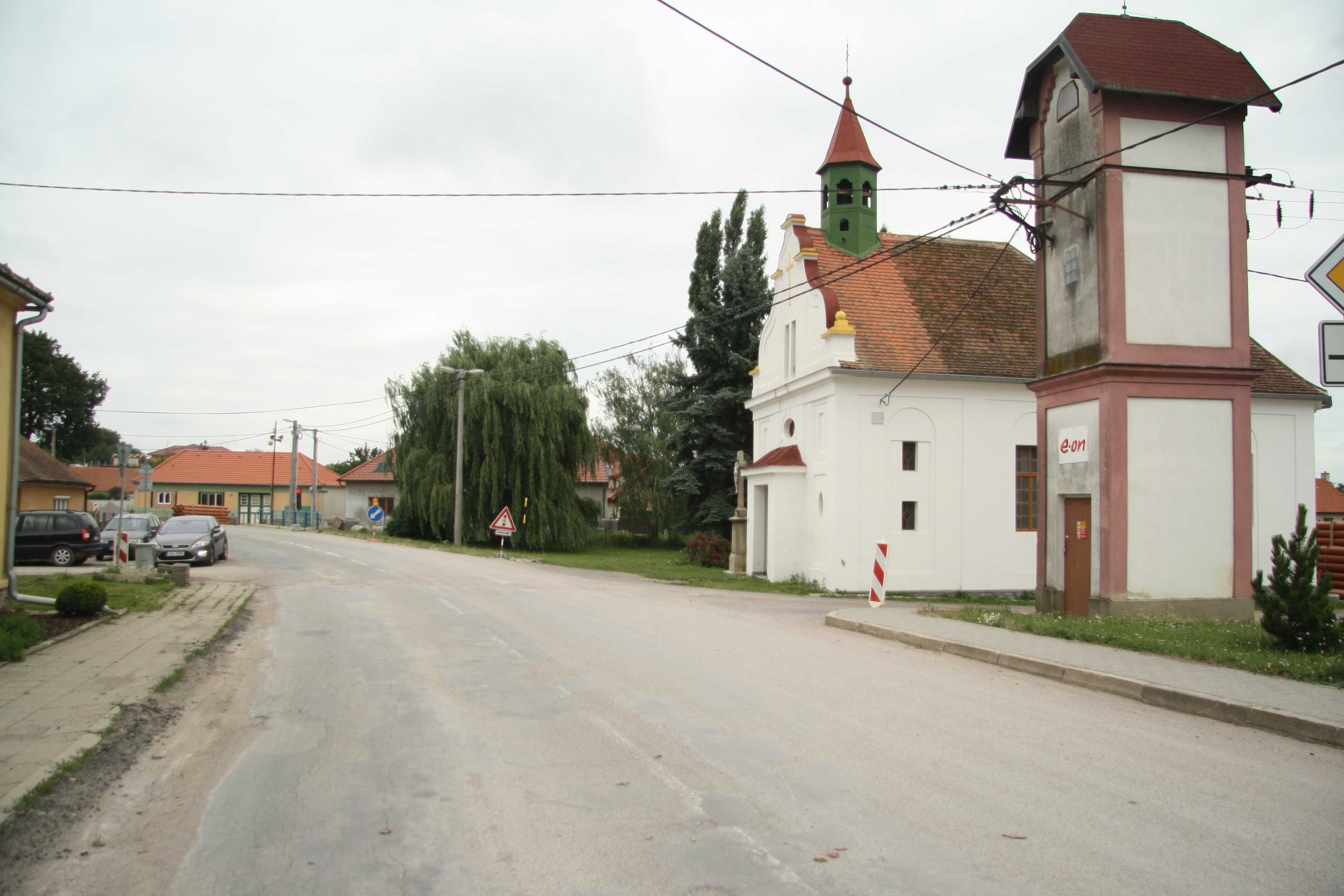 Center of Bojanovice with chapel, Znojmo District.